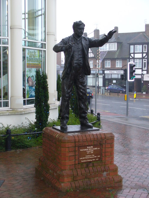 Bronze statue of the composer Ralph Vaughan Williams who lived in Dorking. It is sited outside Dorking Halls.